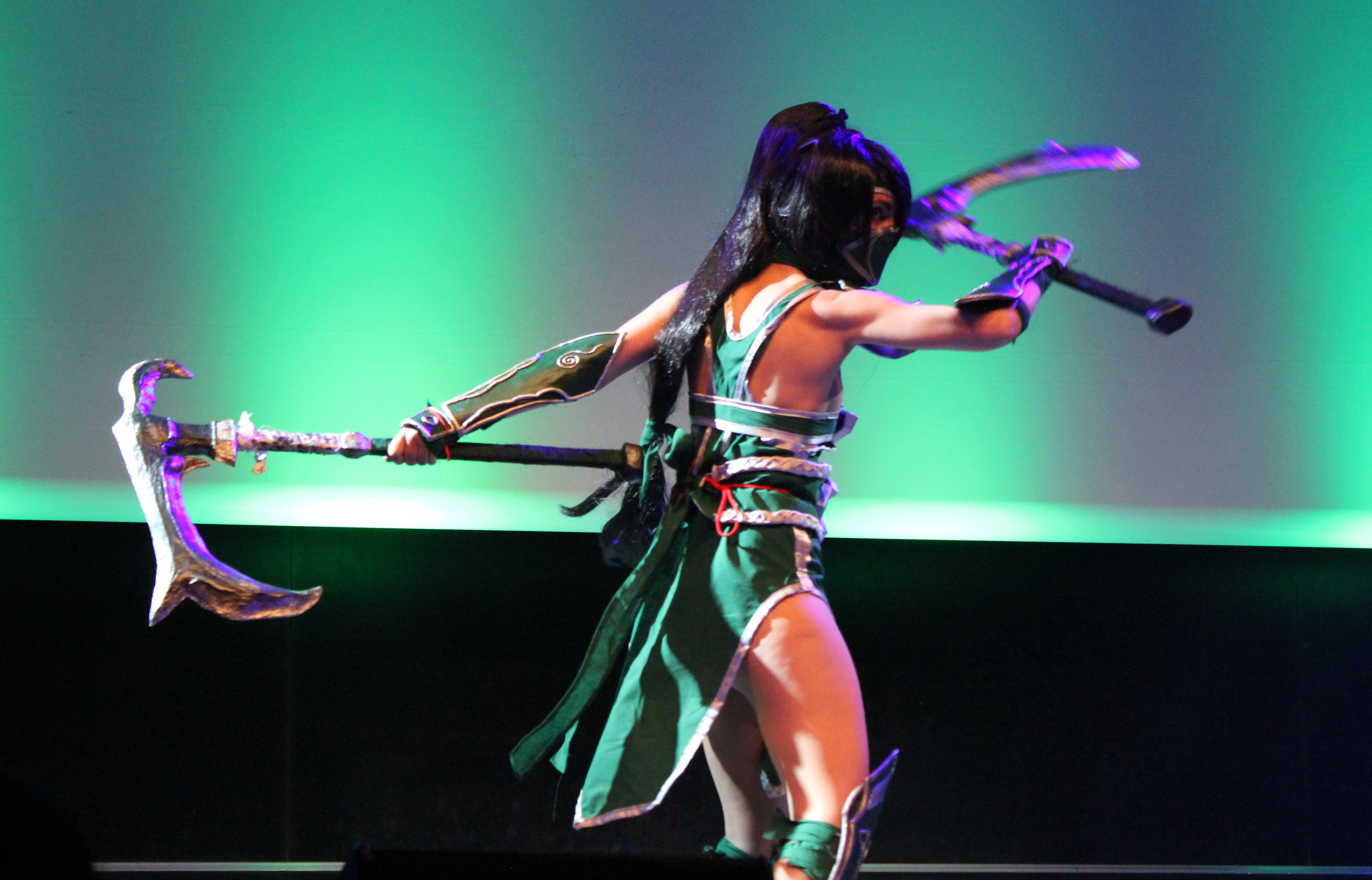 Geekopolis, Paris, Porte de Versailles, 17-18 mai 2014; concours de cosplay